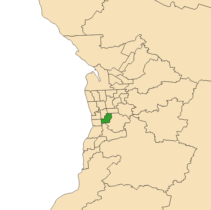 Electoral district 2018 boundaries shown in green